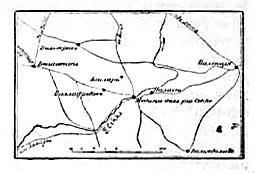 Battle of Medina de Rioseco